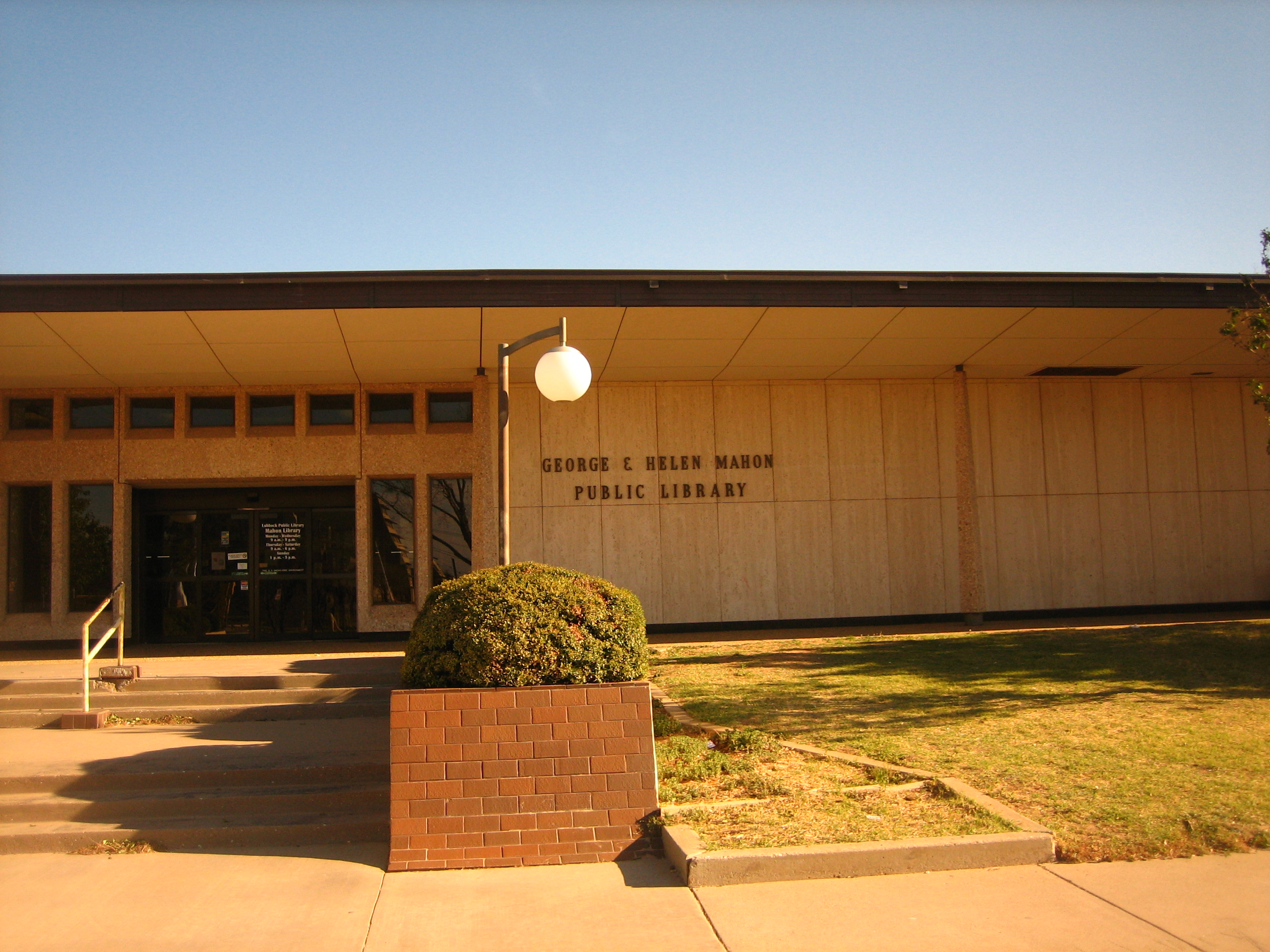 I took photo on April 5, 2009.Billy Hathorn (talk) 02:29, 11 April 2009 (UTC)